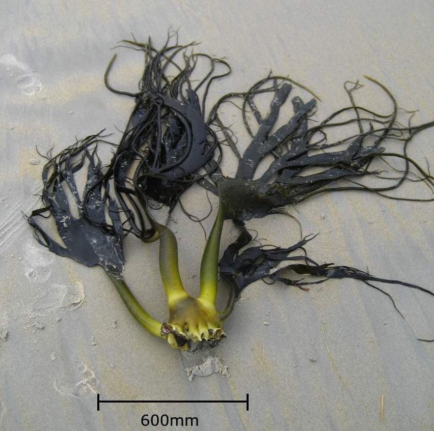 Durvillea antarctica, washed up on Sandfly Bay, Otago, New Zealand